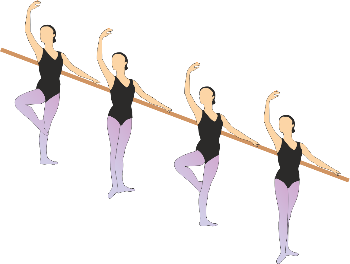 Ballet barre exercises: Passé